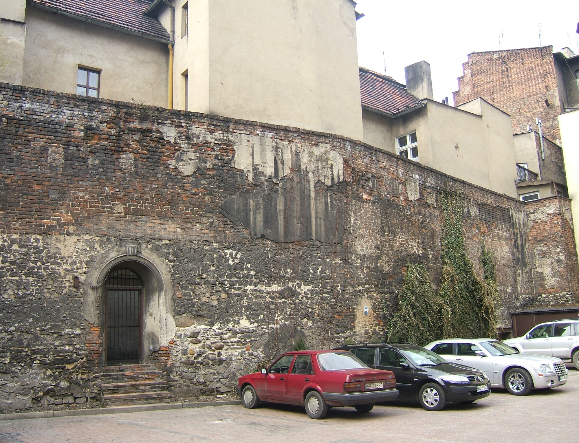 Defensive wall in Gliwice.